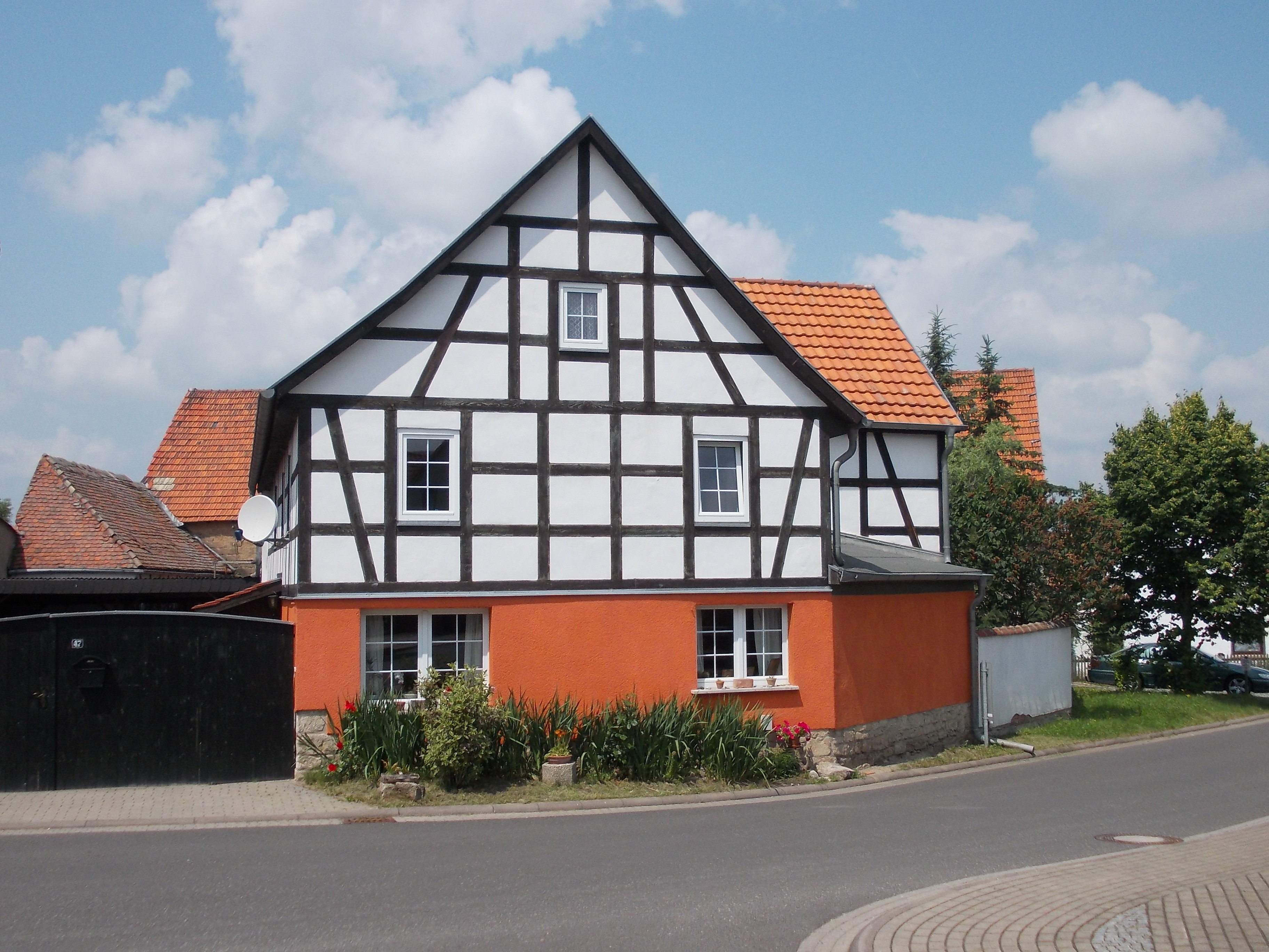 Half-timbered house in Vollersroda (district: Weimarer Land, Thuringia)